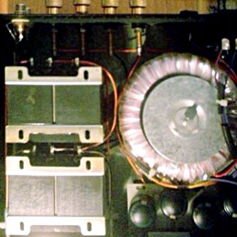 Audion Sterling tube amplifier transformers